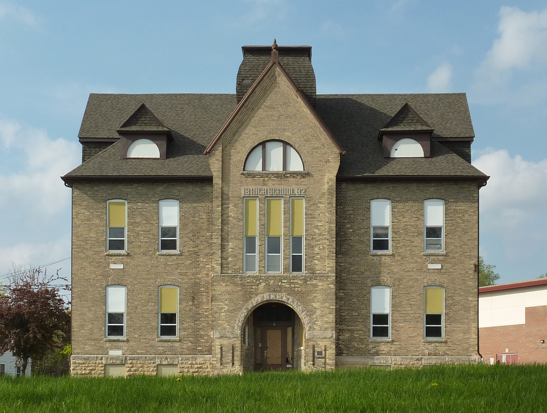 Stoughton High School at 211 N. Forrest Street in Stoughton, Wisconsin, was built in 1892 and added to the National Register of Historic Places in 2002.